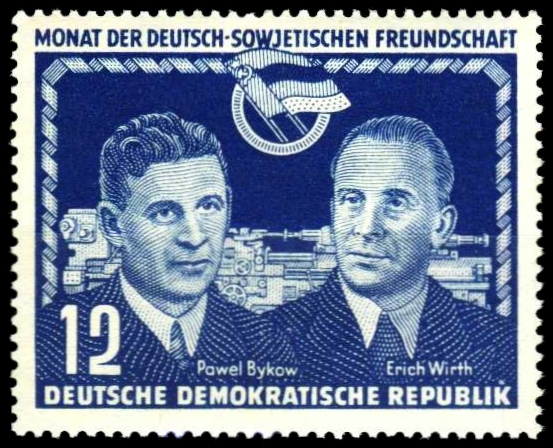 Ausgabepreis: Pfennig First Day of Issue / Erstausgabetag: Auflage: Entwurf: Druckverfahren: Michel-Katalog-Nr: Ländercode-MiNr: Licensing This file is most likely NOT in the public domain. It has been marked for review, and will be deleted in due course if the review does not find it to be in the public domain. This file was previously considered to be in the public domain as a German stamp; it is possible that it is in the public domain for other reasons, in which case a new rationale will be applied as part of the review process. See below for the previous rationale. Previous public domain rationale, no longer applicable This stamp is in the public domain in Germany because it was released by the postal administration of the German Democratic Republic or the Soviet occupation zone (Deutschen Post der DDR) whose legal successor is the Federal Republic of Germany. Thus it is an official work according to German copyright law (§ 5 Abs. 1 UrhG).